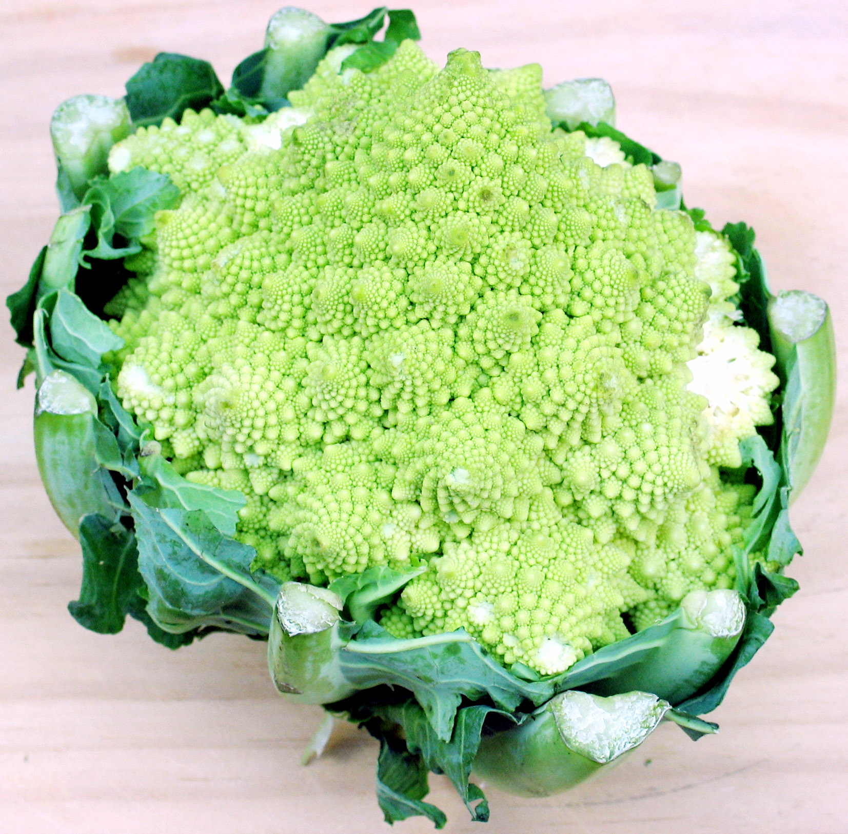 This is a head of Romanesco Broccoli.